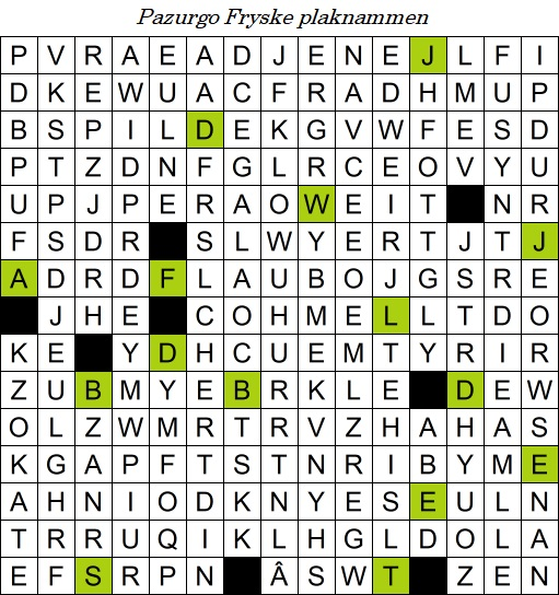 Pazurgo puzzle with theme: Frisian places '